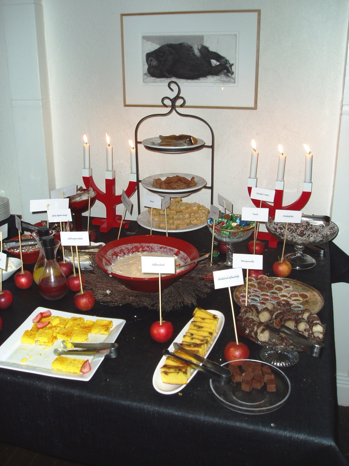 Julbord(Christmas smörgåsbord) sötsaker, Swedish Christmas food, diffrent pastrys and sweets